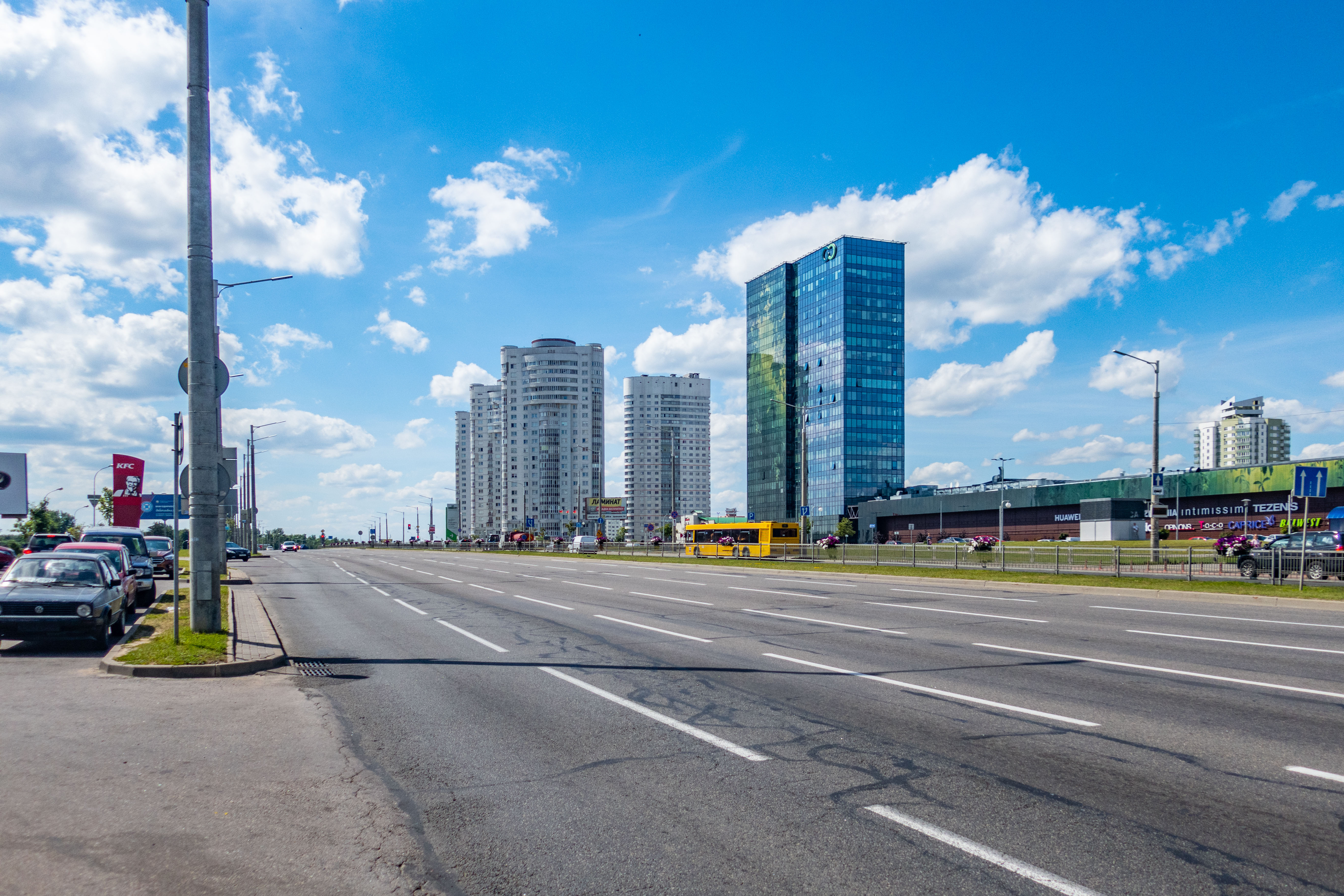 Prytyckaha street. Minsk, Belarus